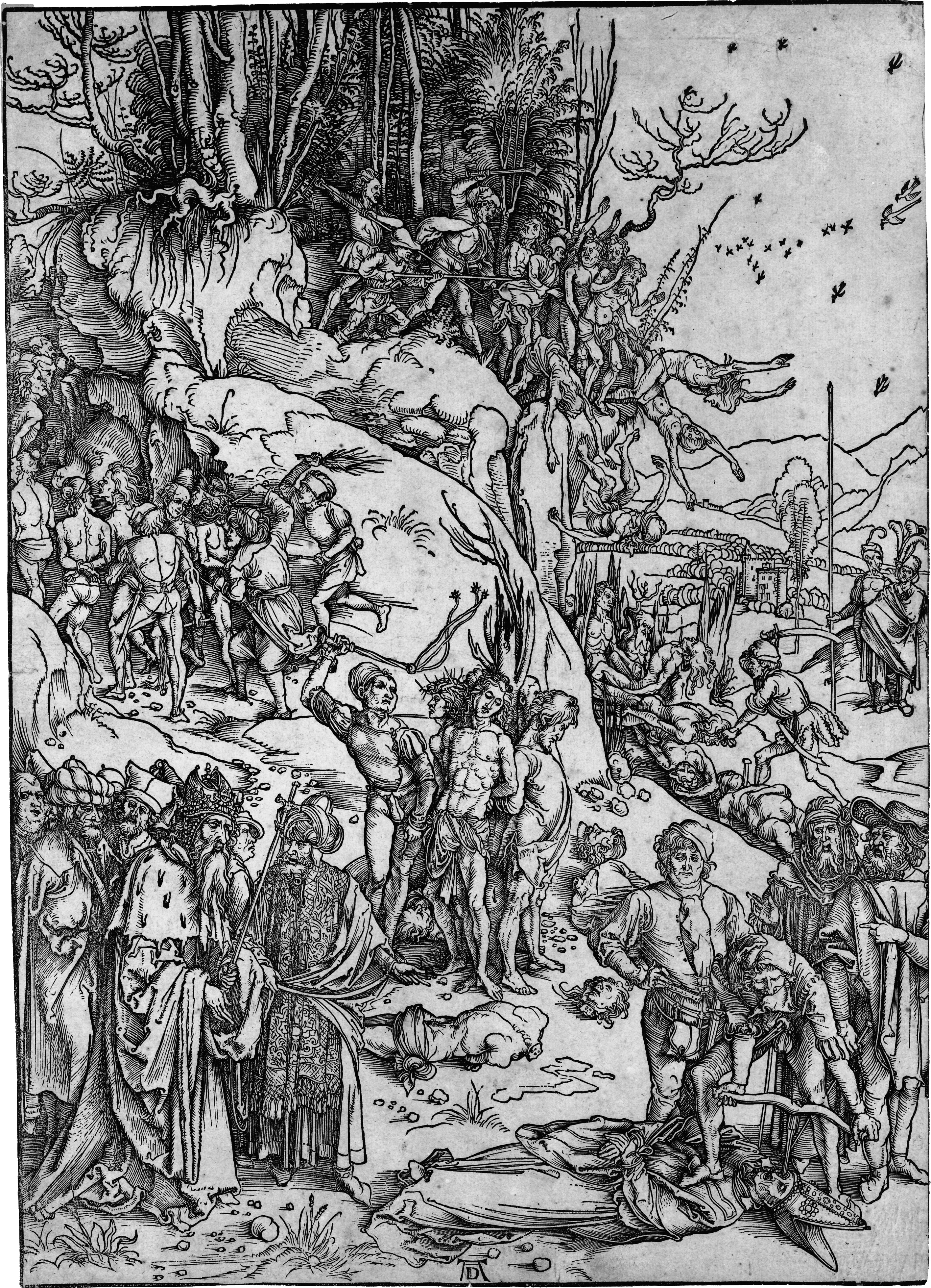 The Martyrdom of the Ten Thousand (B. 117; M., Holl. 218)